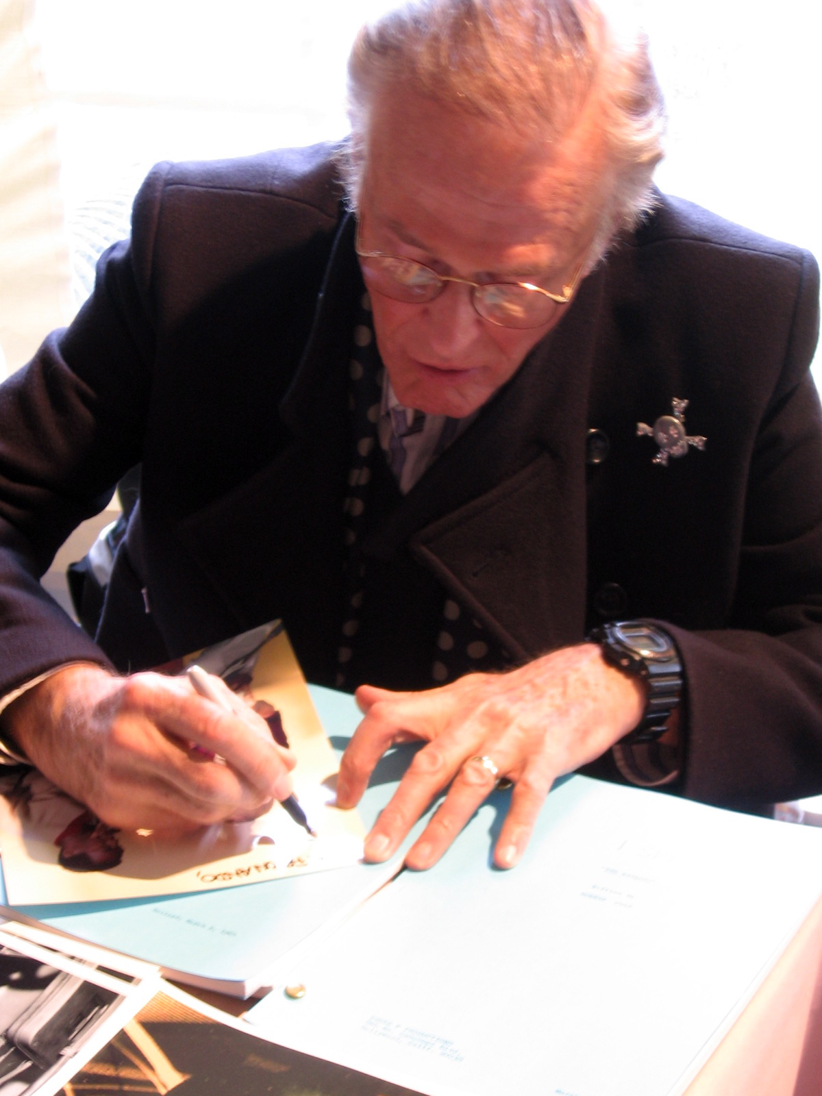 The actor Robert Culp